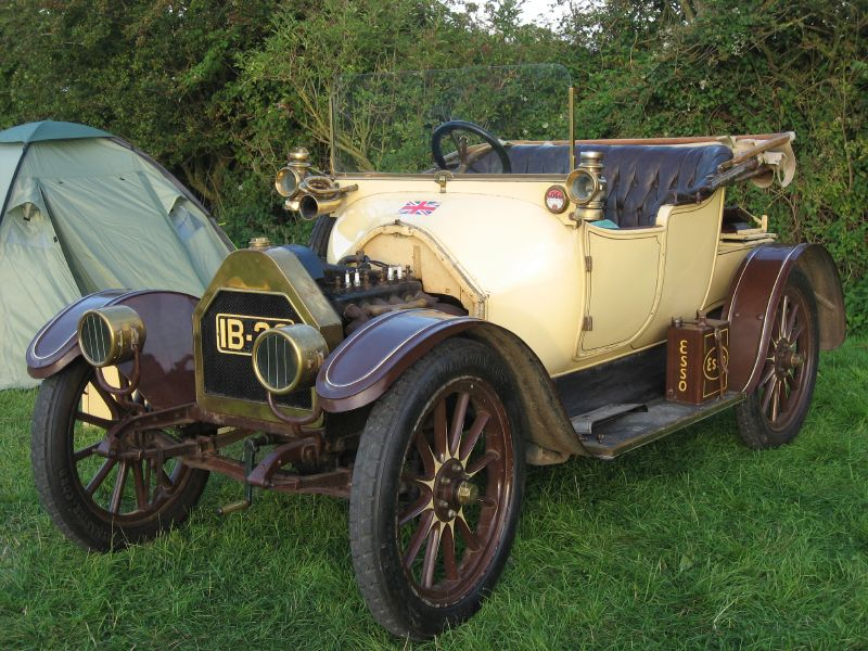 1915 Belsize 3-seater with dickey Veteran Car Club of Great Britain Young Persons Rally, Devizes